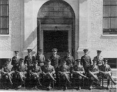 Members of the Air Corps Tactical School's 1931 class at Maxwell Field in Montgomery, Alabama